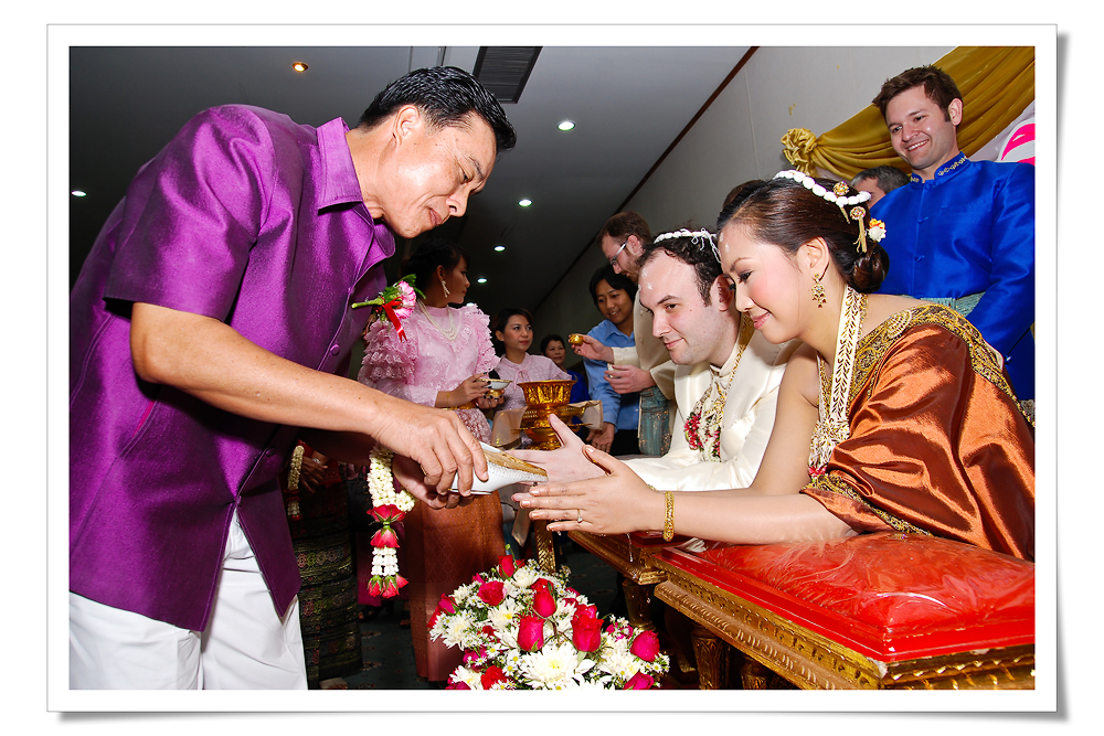 An elder relative pours lustral water from a conch shell over the hands of the bride and groom during a Thai wedding ceremony.